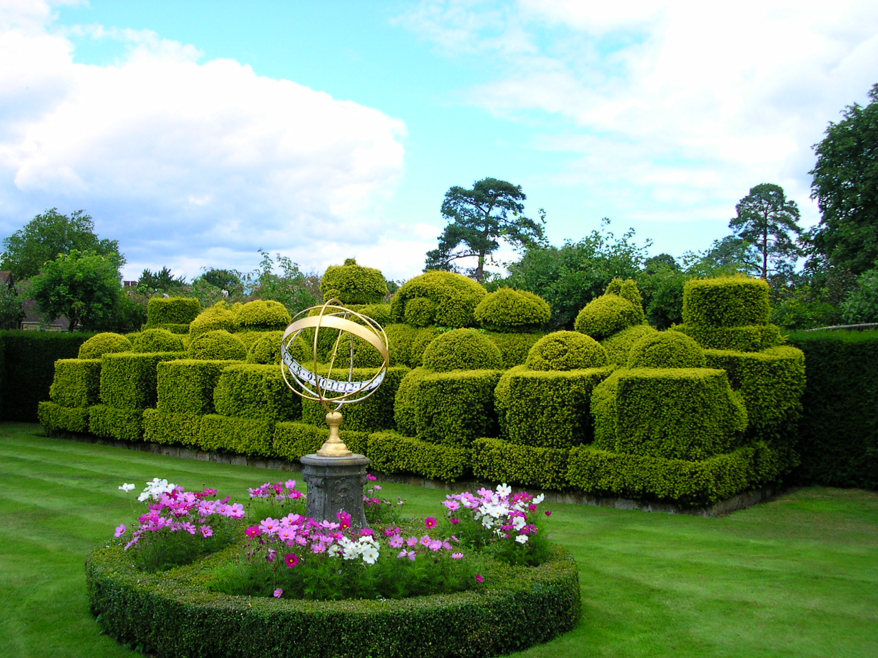 A topiary chess set at Hever Castle gardens, Kent, England.